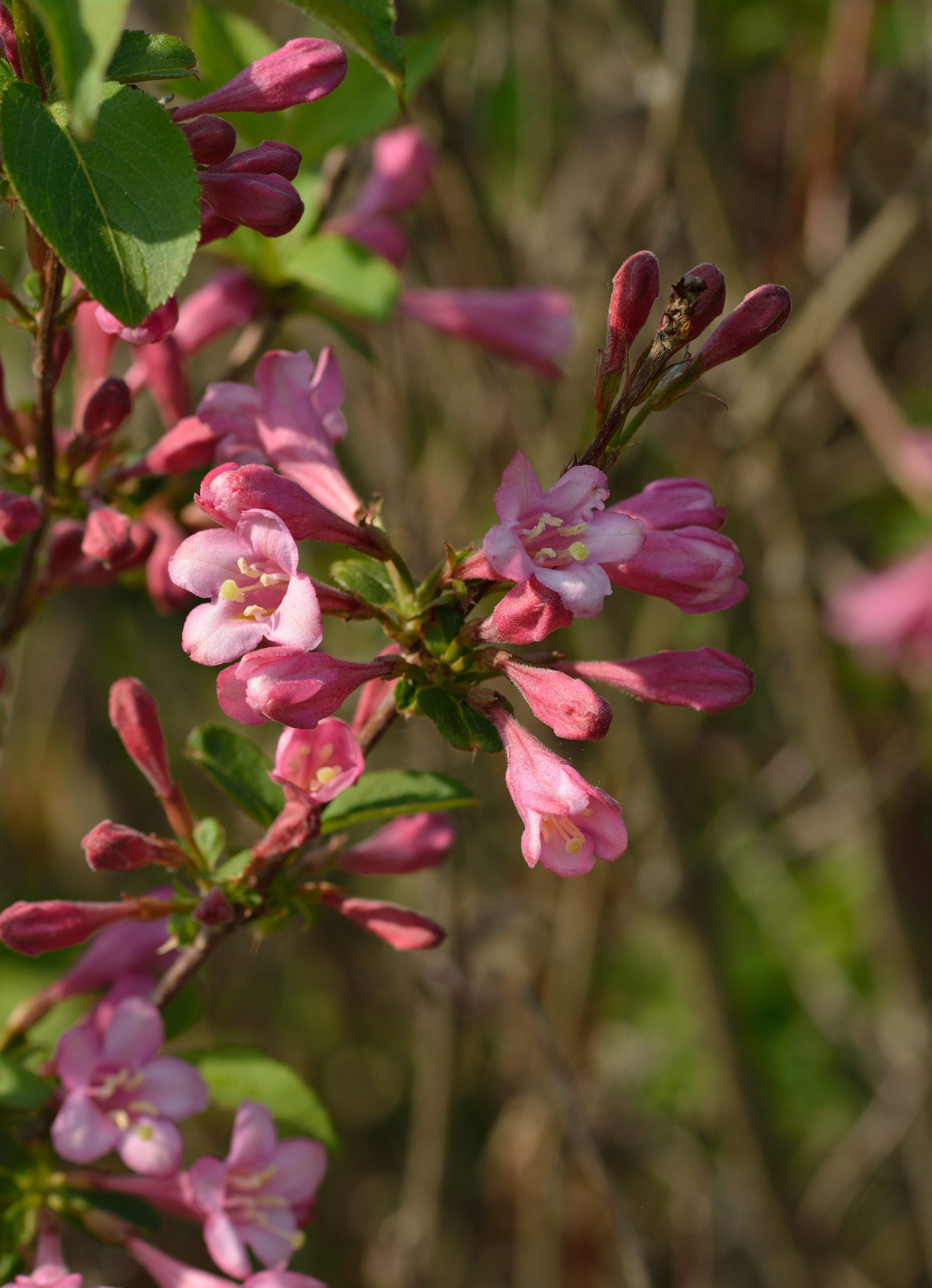 Weigela florida in the Tallinn Botanical Garden